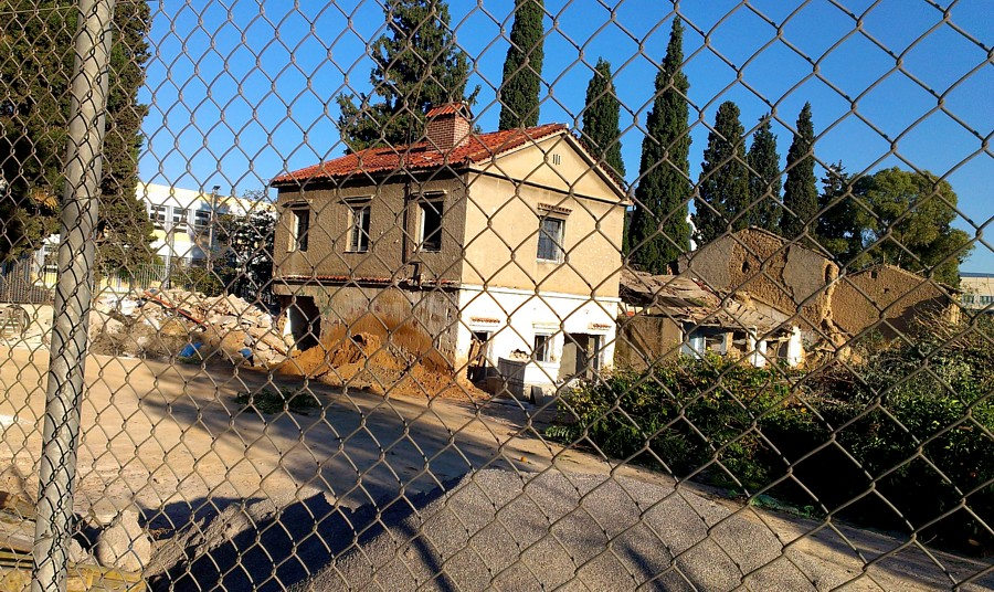 aigaleo